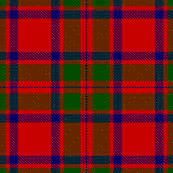 Clan MacKintosh tartan (modern)